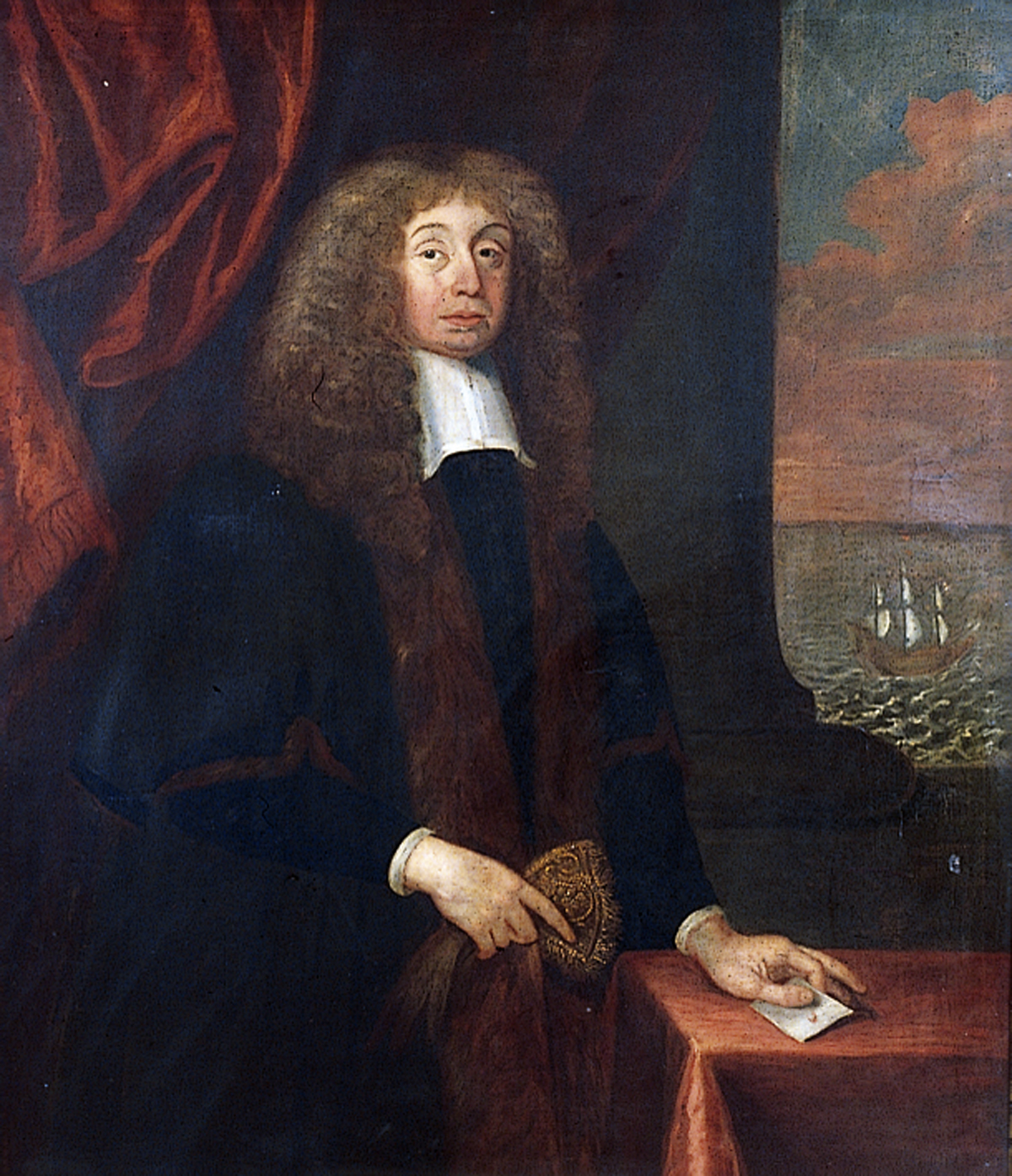 A portrait of Erasmus Smith (baptized 1611; died 1691), an English merchant, landowner and philanthropist who established The Erasmus Smith Trust that promotes education in Ireland.